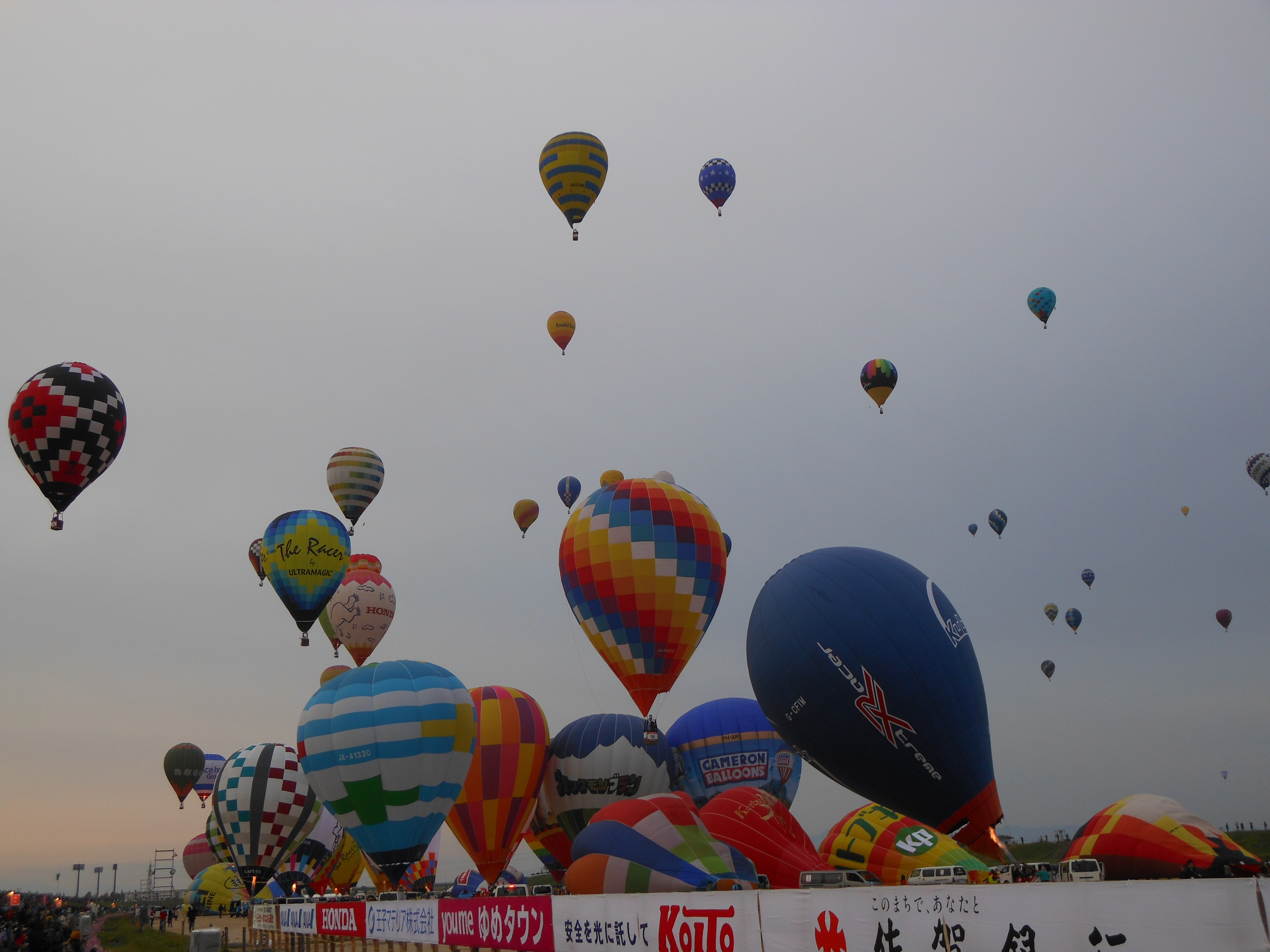 Taking off of hot air balloons at the same time, 2015 Saga International Balloon Fiesta